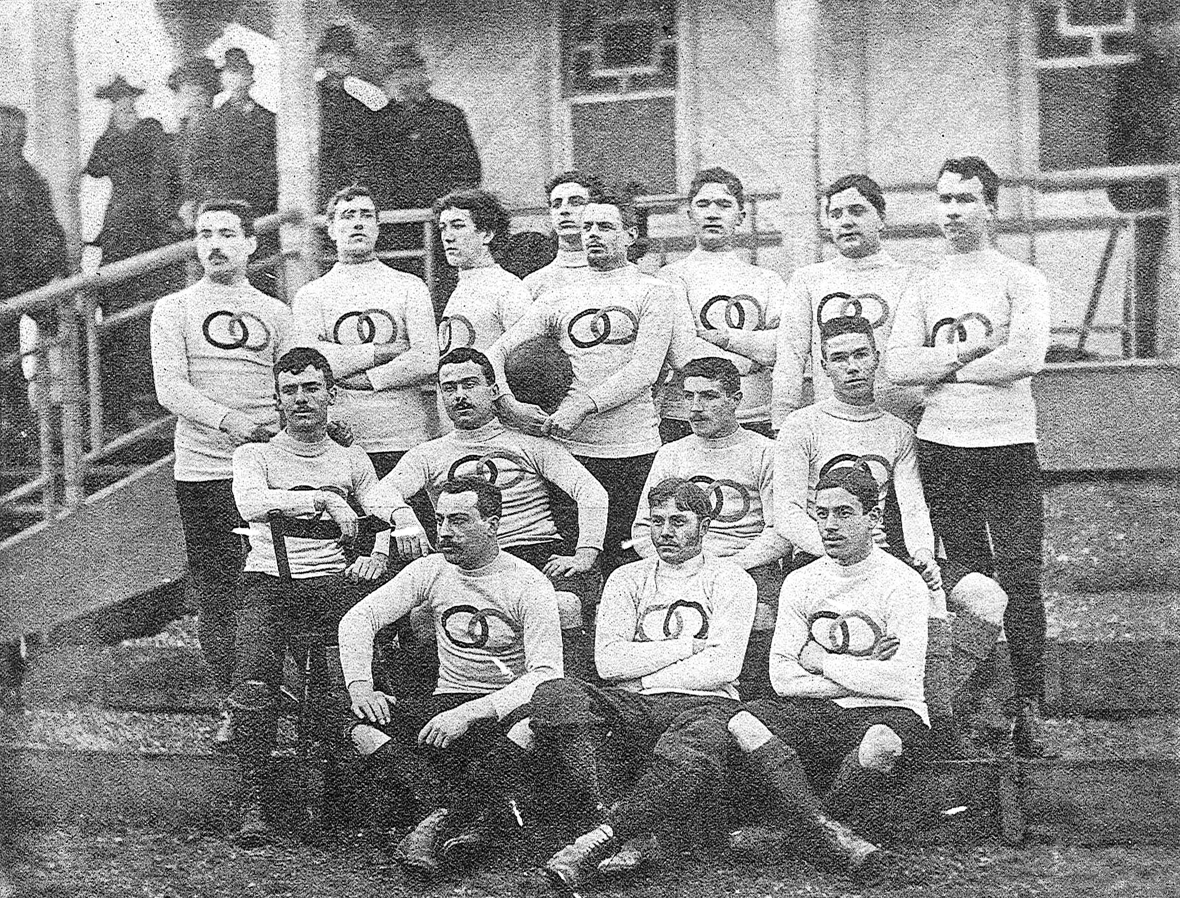 Team of USFSA (representing France) that played England, February 1893.